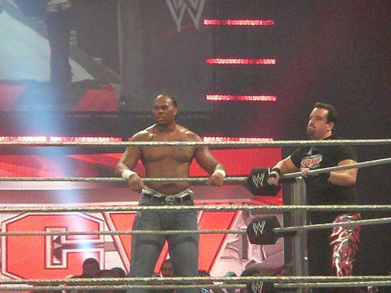 Taken at the Manchester Evening News arena, 10th November 2008 at the WWE Raw taping.